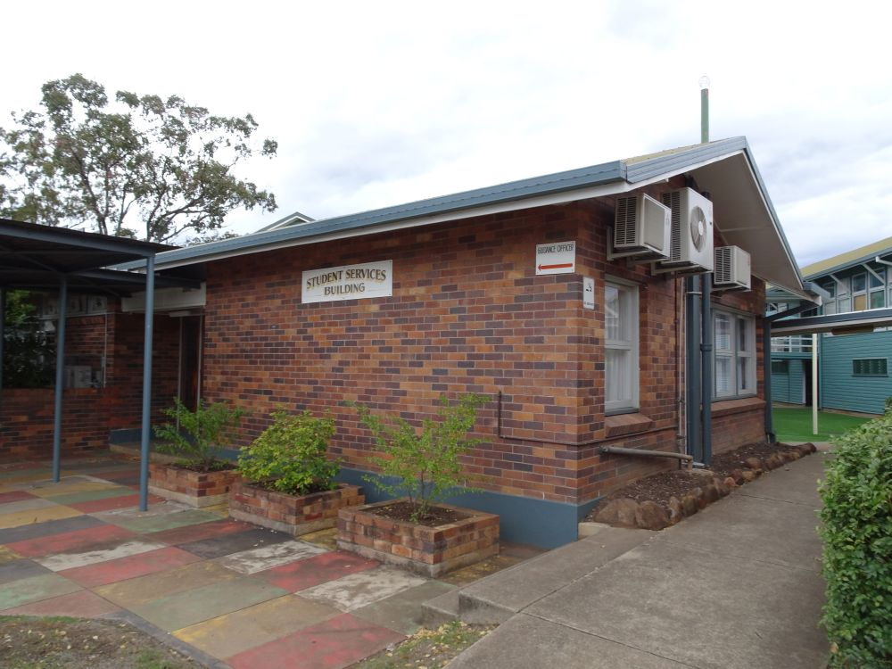 Block F (former administration) northeast corner looking west